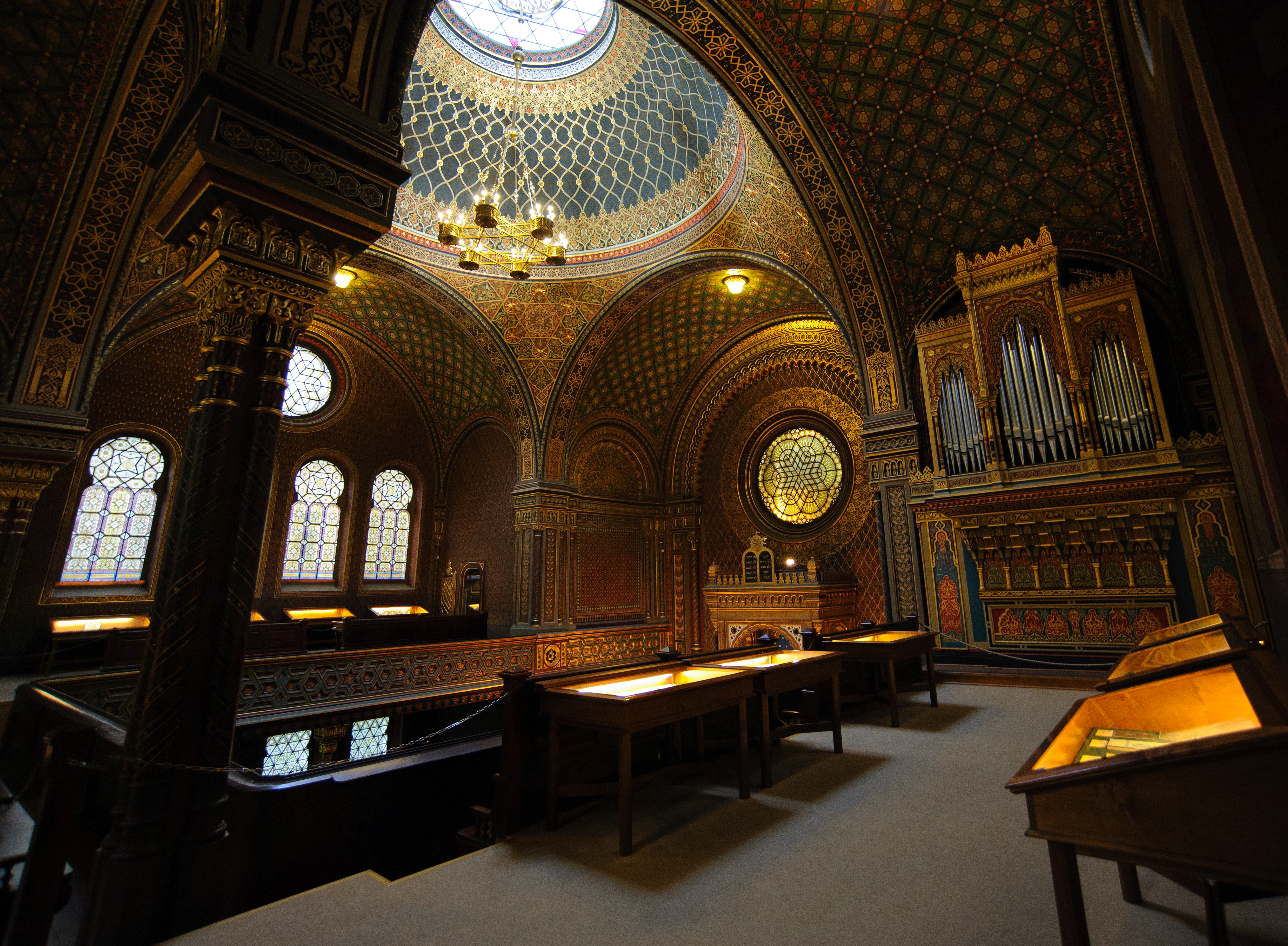 A view of the Spanish Synagogue in Prag